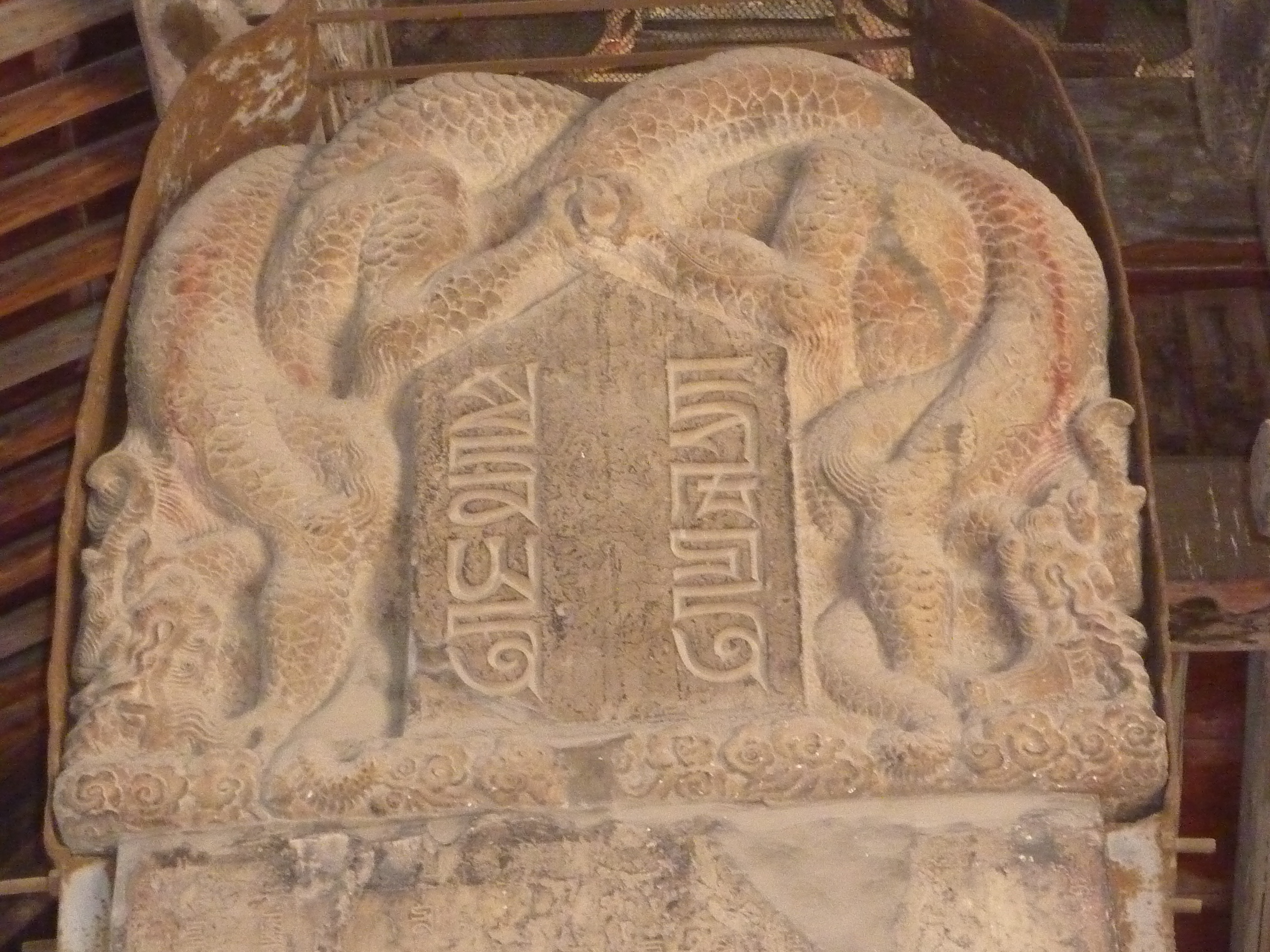 The 4th pavilion, counting from the east, in the southern row of the Thirteen Stele Pavilions of the Temple of Confucius, Qufu. This pavilion houses 3 Yuan Dynasty tortois-borne steles, all facing south. Two of them (right and left) are written in Mongol in 'Phags-pa script; the middle one, in Chinese. This photo shows the top of the eastern (left) stele.